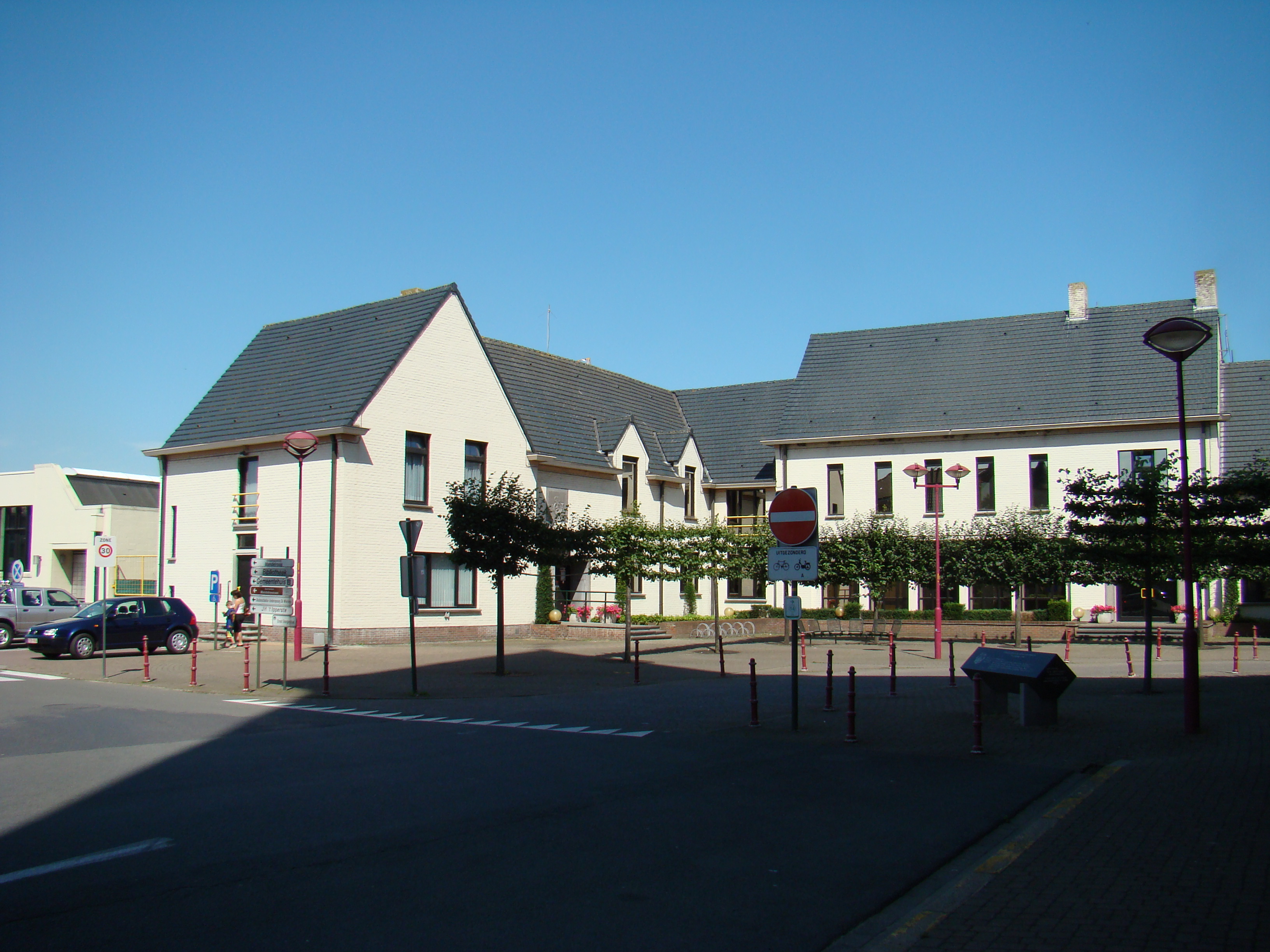 Oostrozebeke (West Flanders, Belgium)